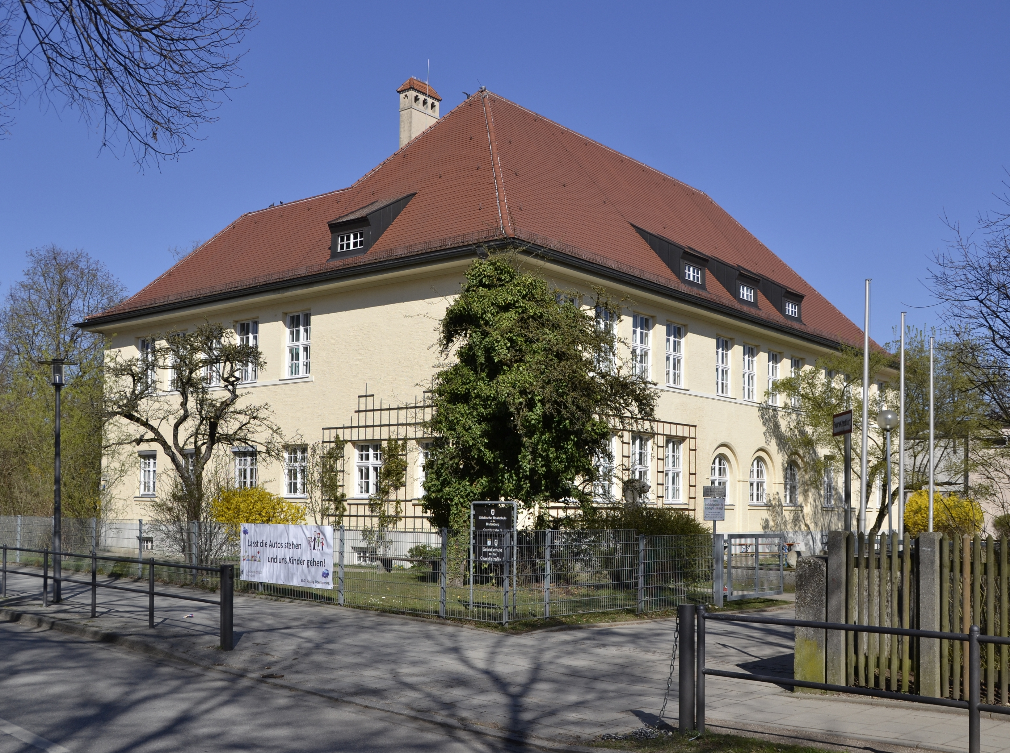 The secondary school "Realschule an der Blutenburg" in Obermenzing, Munich.